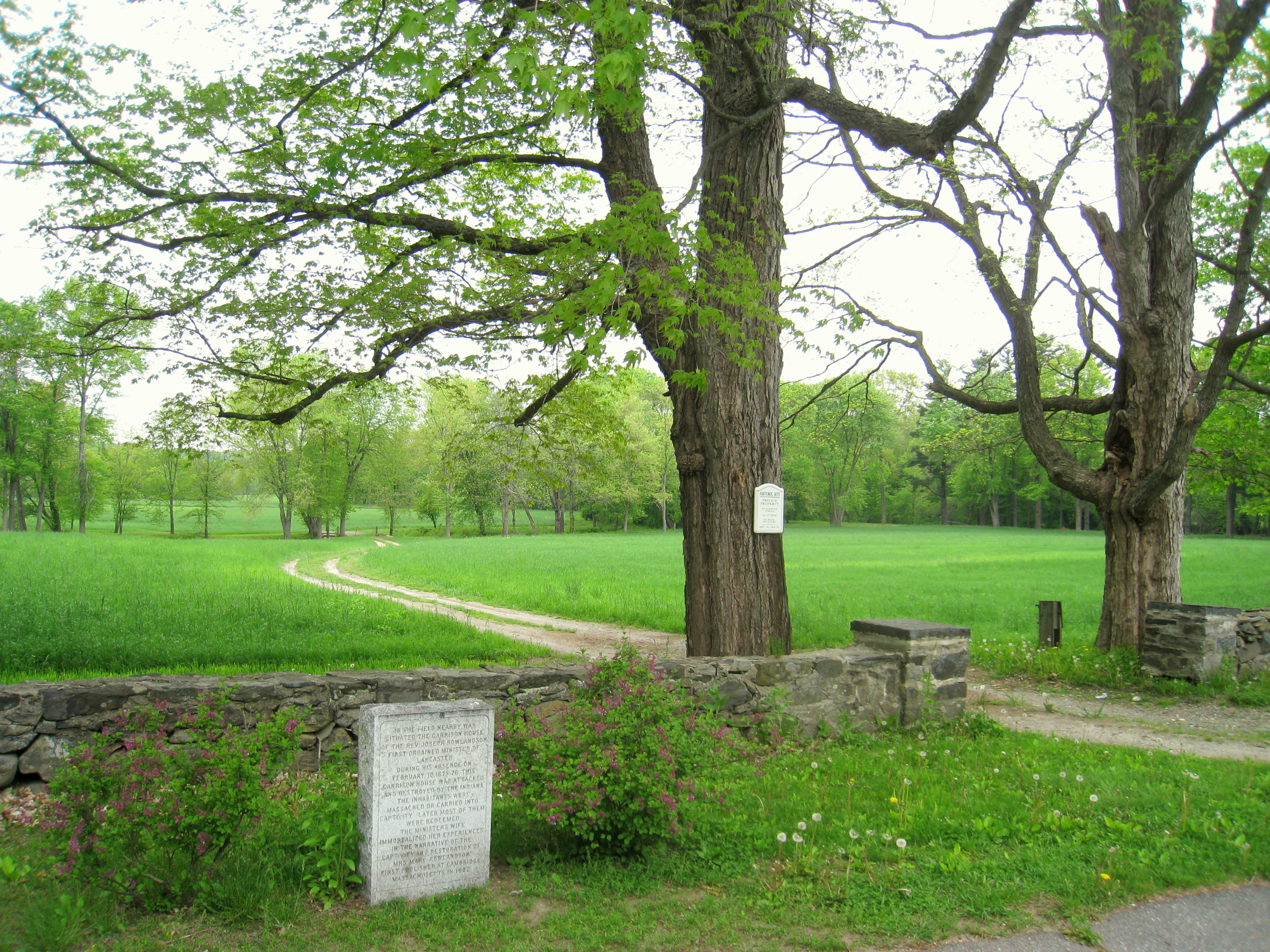 Site at which Mary Rowlandson was captured by Native Americans on February 10, 1675-1676.